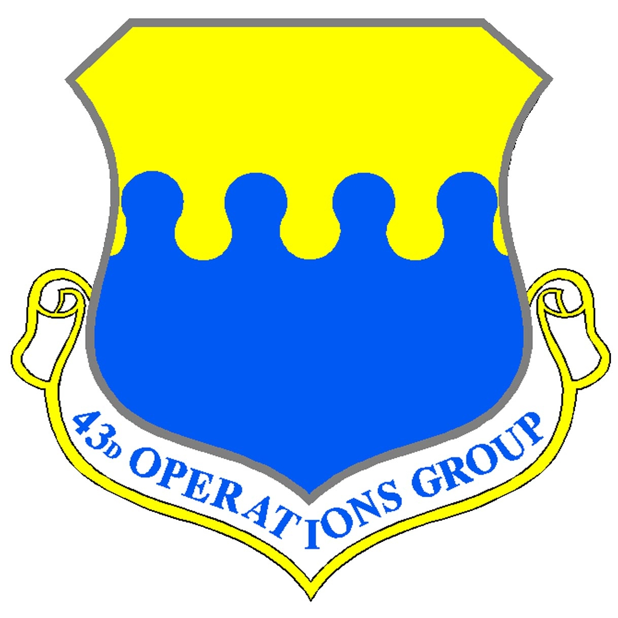 43d Operations Group emblem (USAF [1]